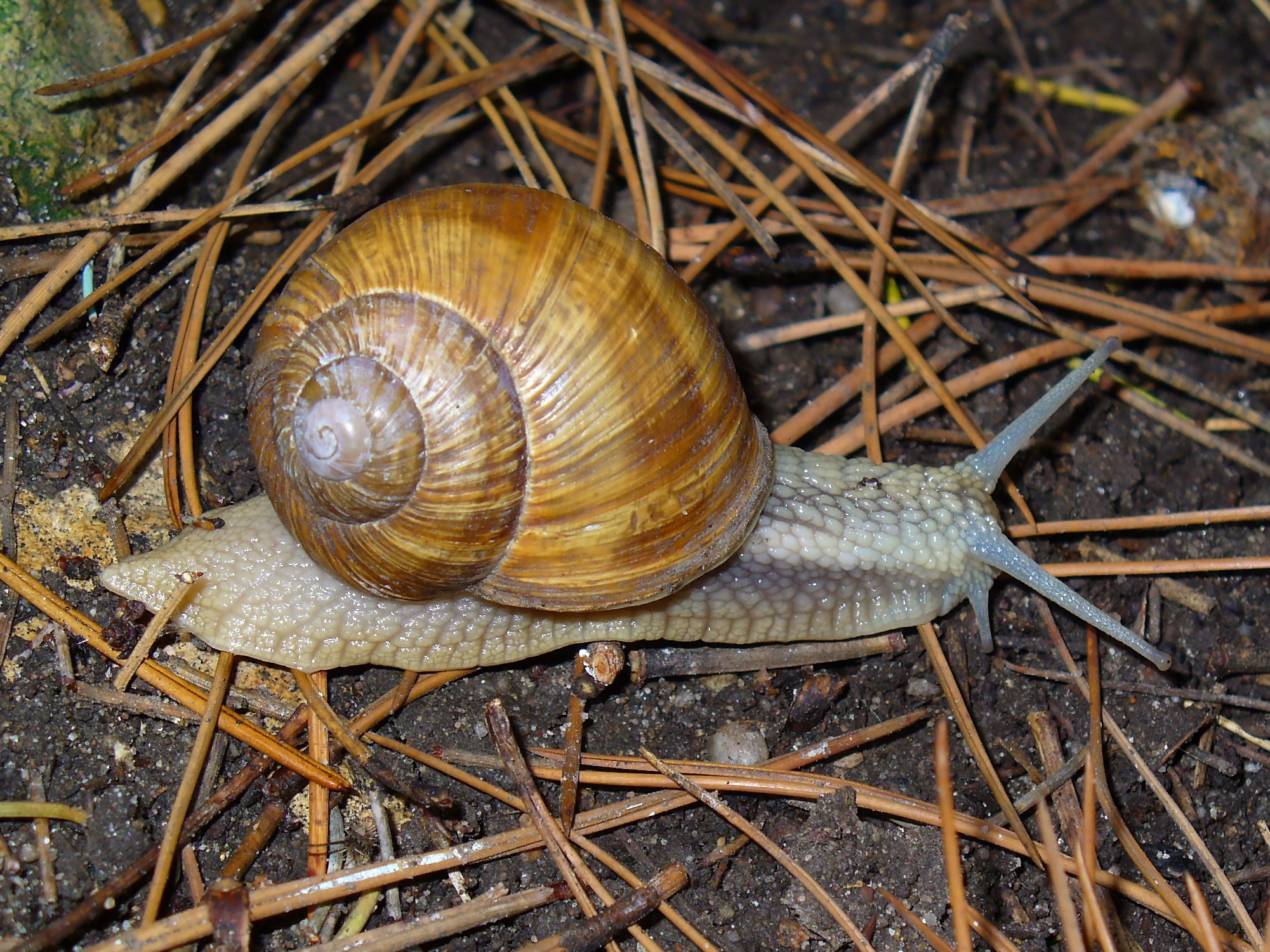 Helix pomatia, Helicidae, Burgundy Snail, Roman Snail, Edible Snail; Karlsruhe, Germany.